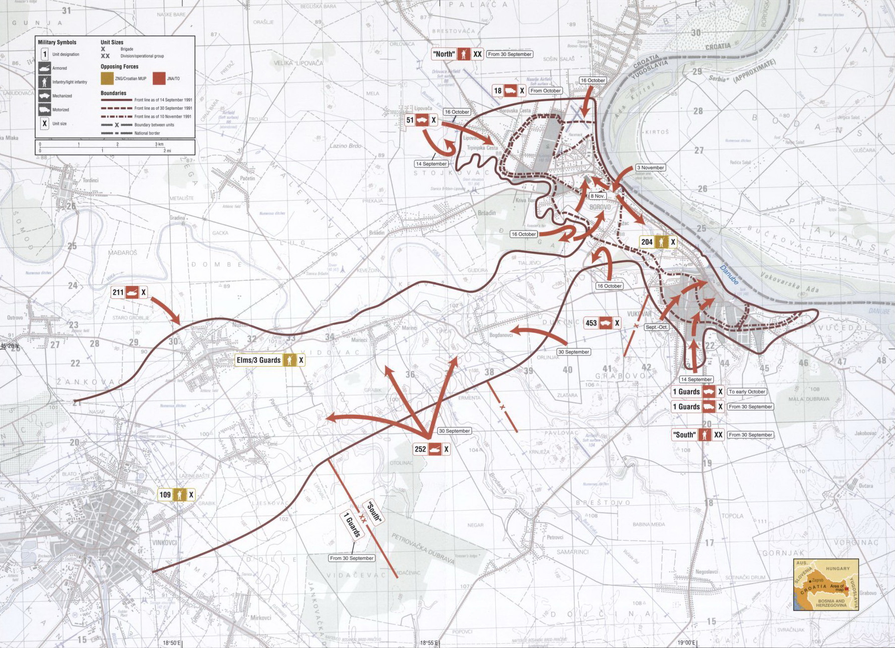 Map of the Battle of Vukovar, September 1991 - November 1991